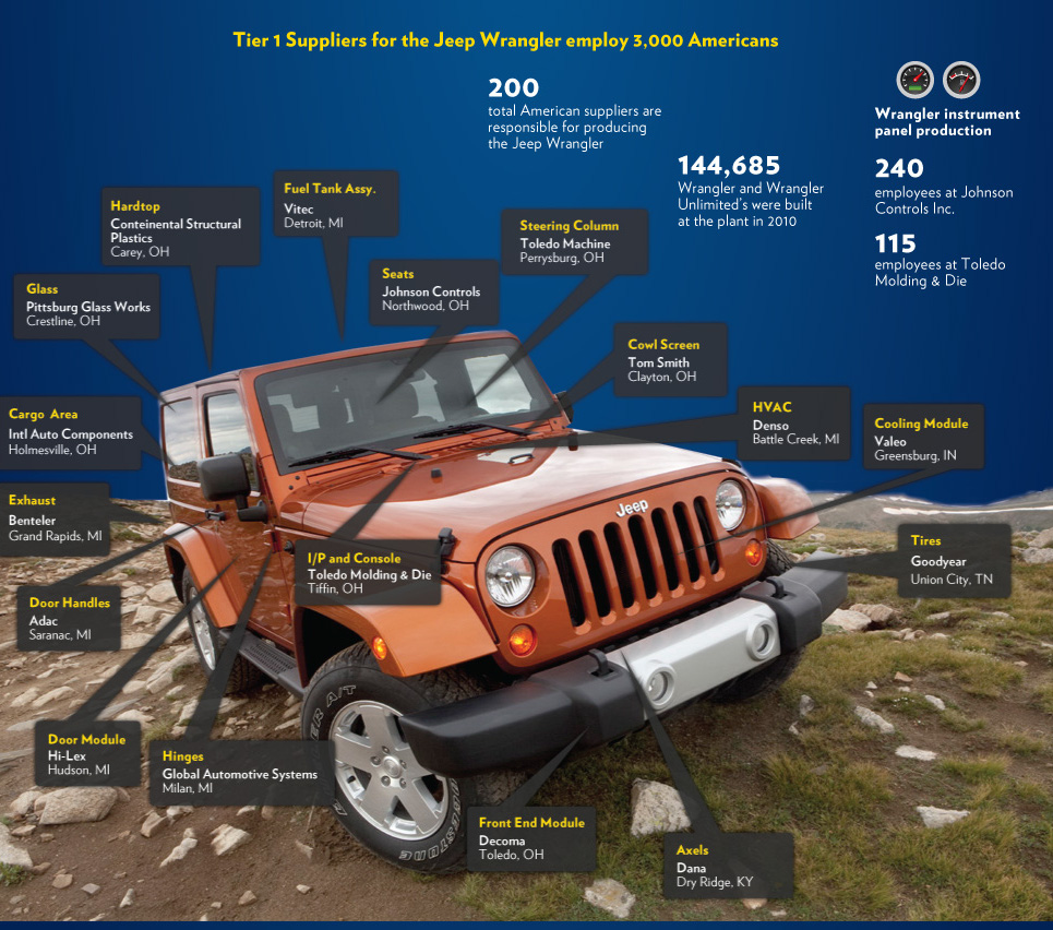 Cropped to show the vehicle and productions centers of various components.